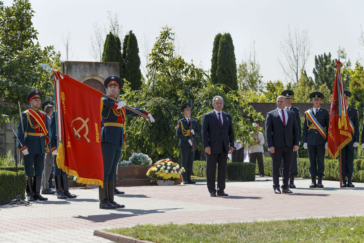 Министр обороны России генерал армии Сергей Шойгу высоко оценивает важность миротворческой операции в Приднестровье